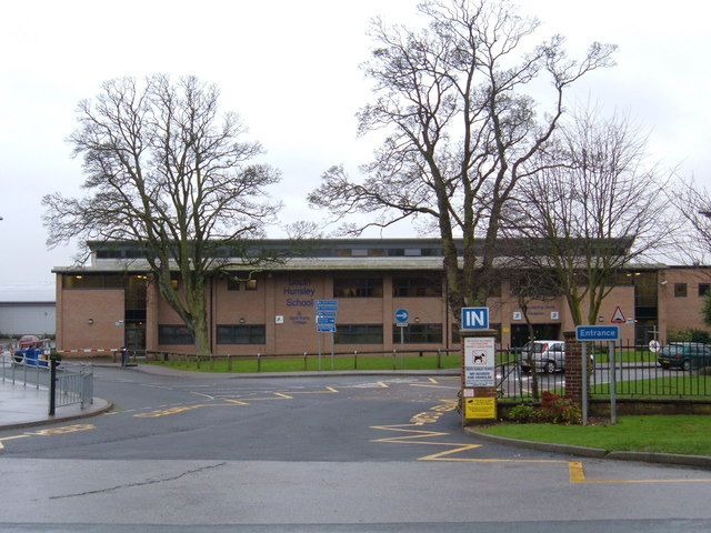 South Hunsley School, Melton, East Riding of Yorkshire, England.